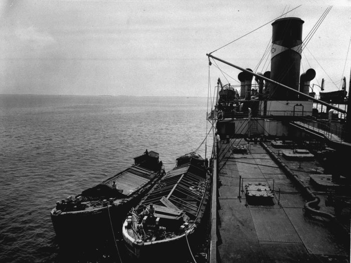 Photo. Lighters/Barges at Semarang